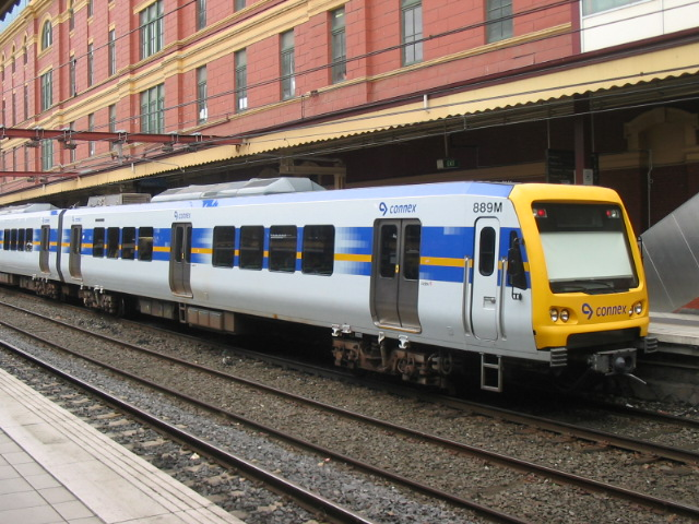 X'Trapolis at platform 1, Flinders Street Station. Picture taken by myself.